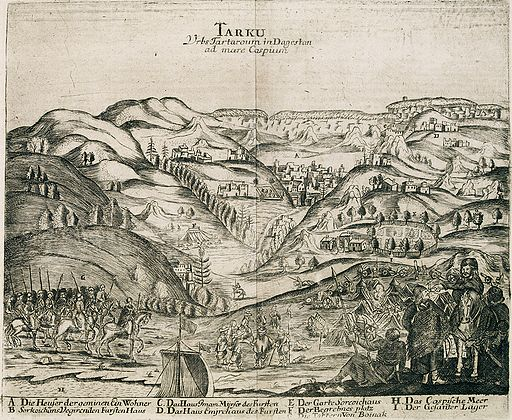 The engraving of the city of Tarki — capital of the Kumyk Tarki Shamkhalate, voyage of Adam Olearius, 1695